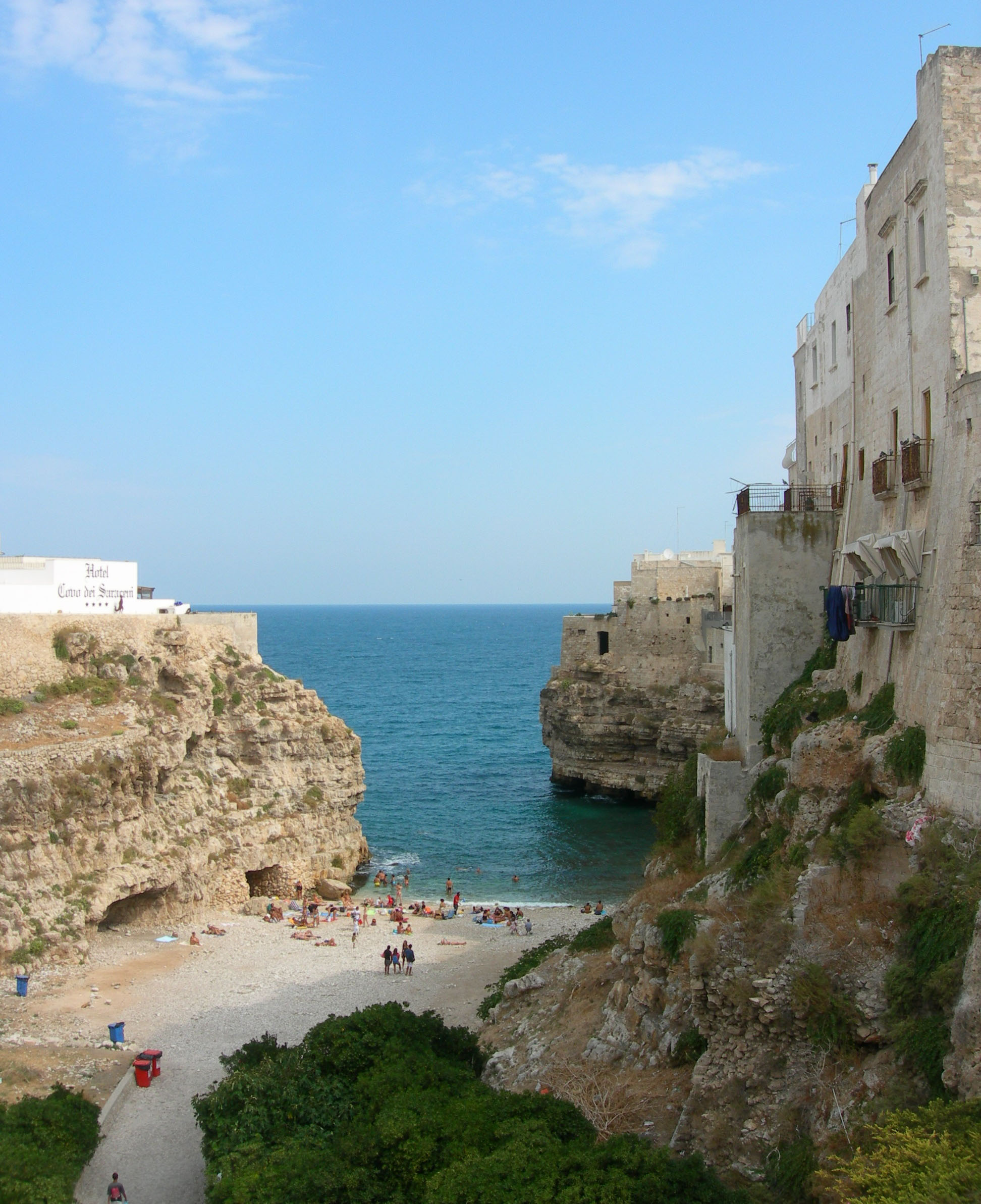 The beach of Polignano a Mare, Puglia, Italy.